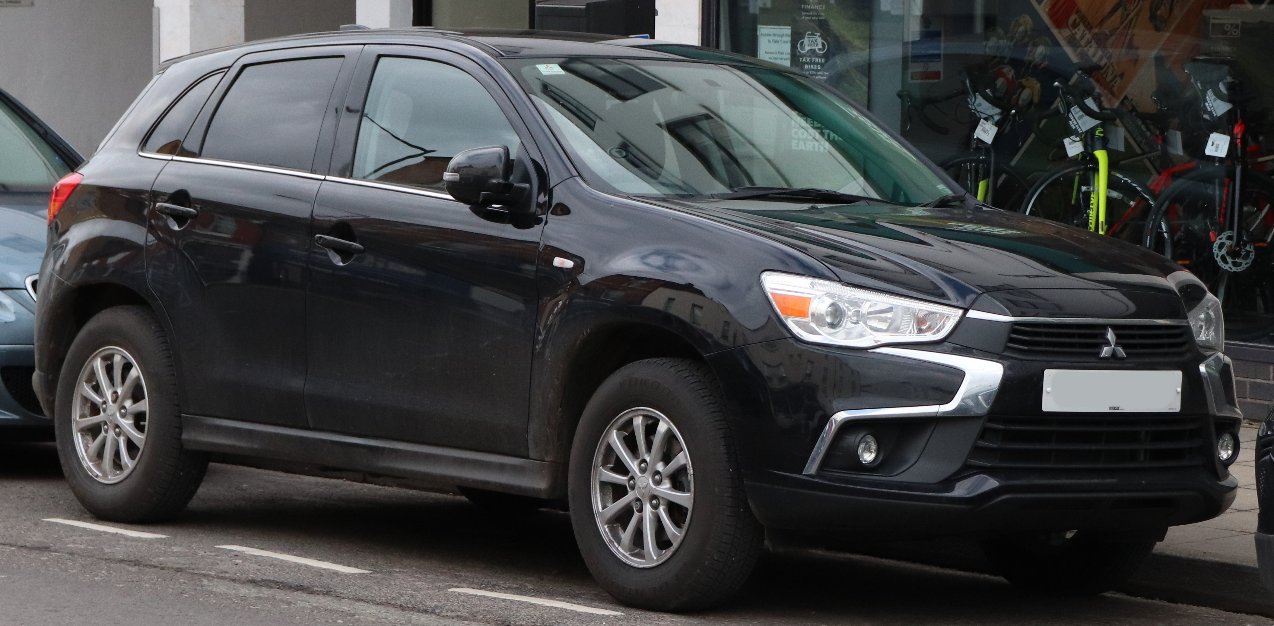 2017 Mitsubishi ASX 2 1.6 Taken in Leamington Spa